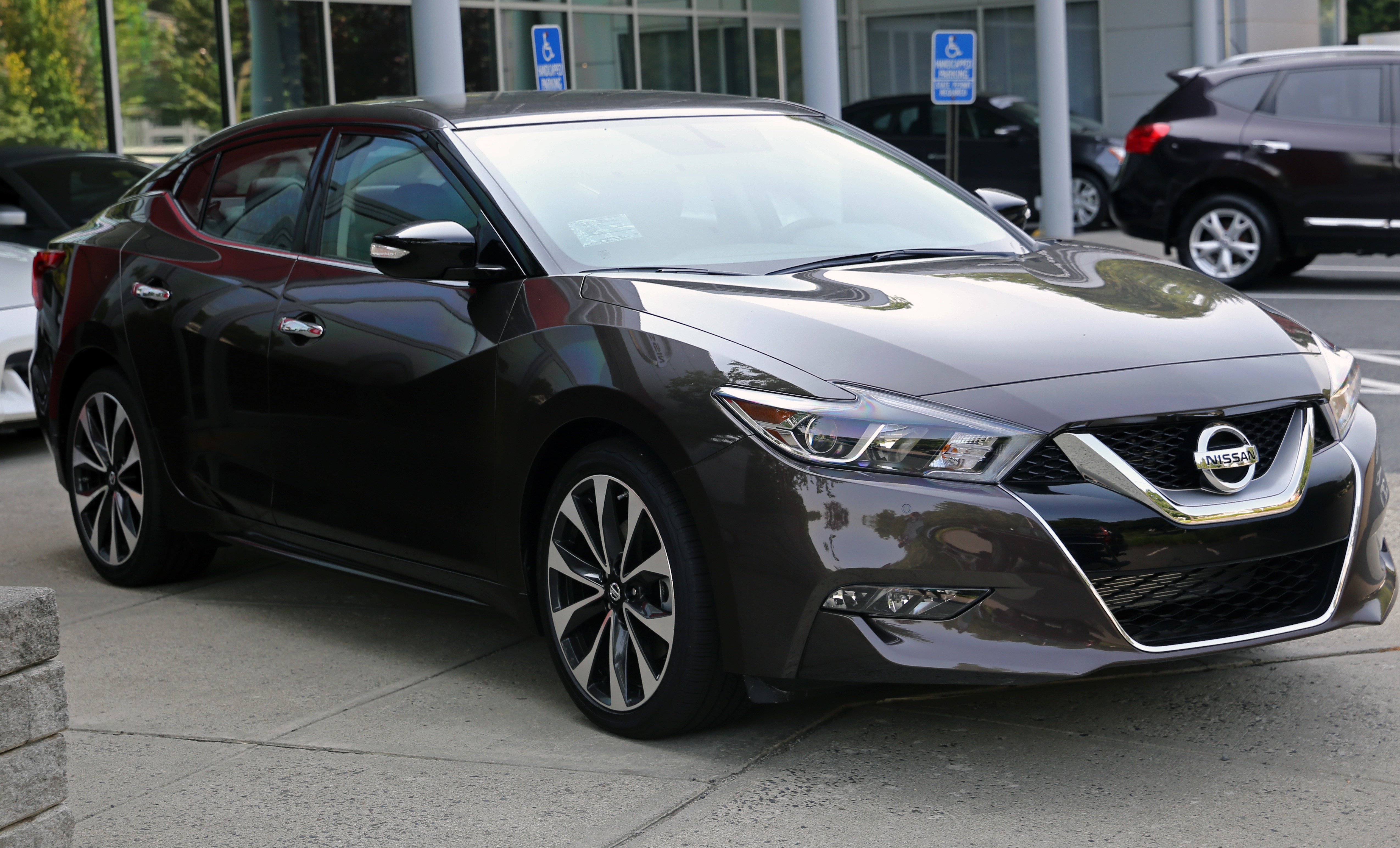 2016 Nissan Maxima SR in Forged Bronze, Charcoal interior. 300hp 3.5-liter V6 is more than most people could ever need.